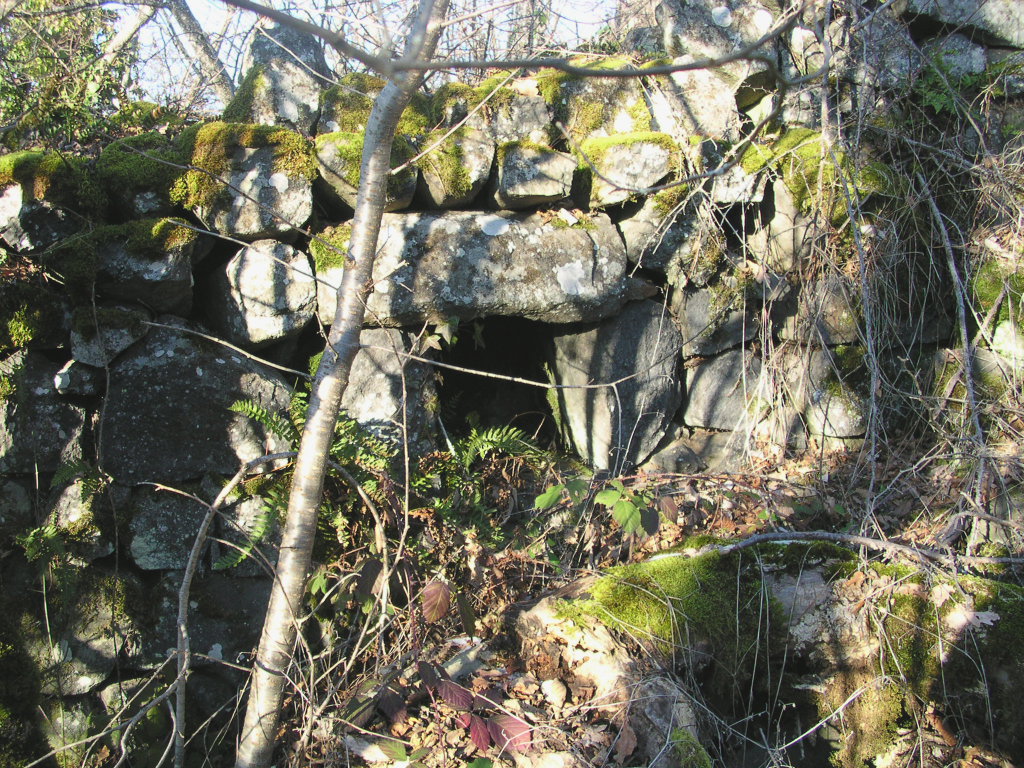 Remaining of the Montredon castle on the summit ot Mont Redon near the village of Ponteix, in the church (Commune of Aydat, Puy-de-Dôme, France)